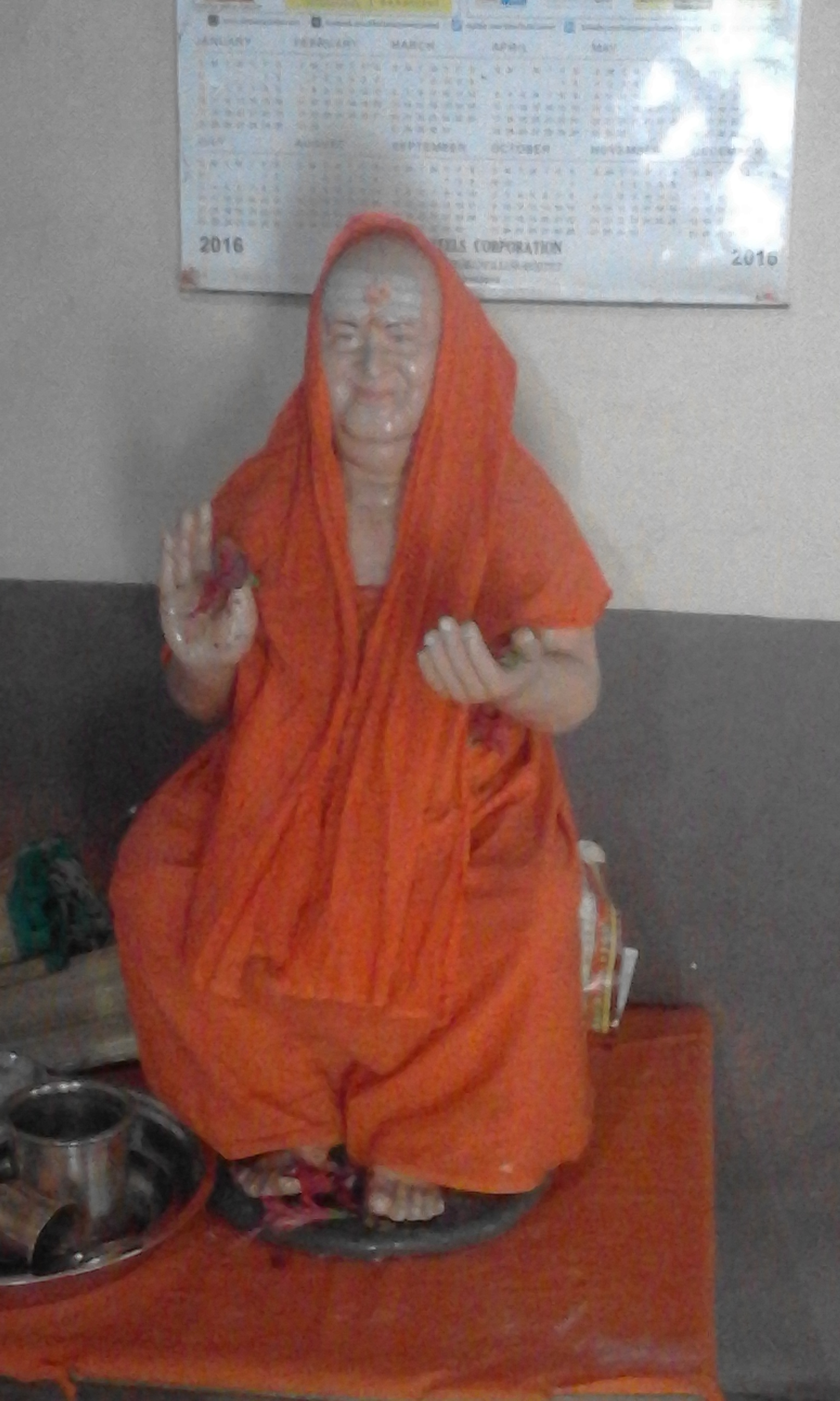 Sri Gnanandha Swami Idol